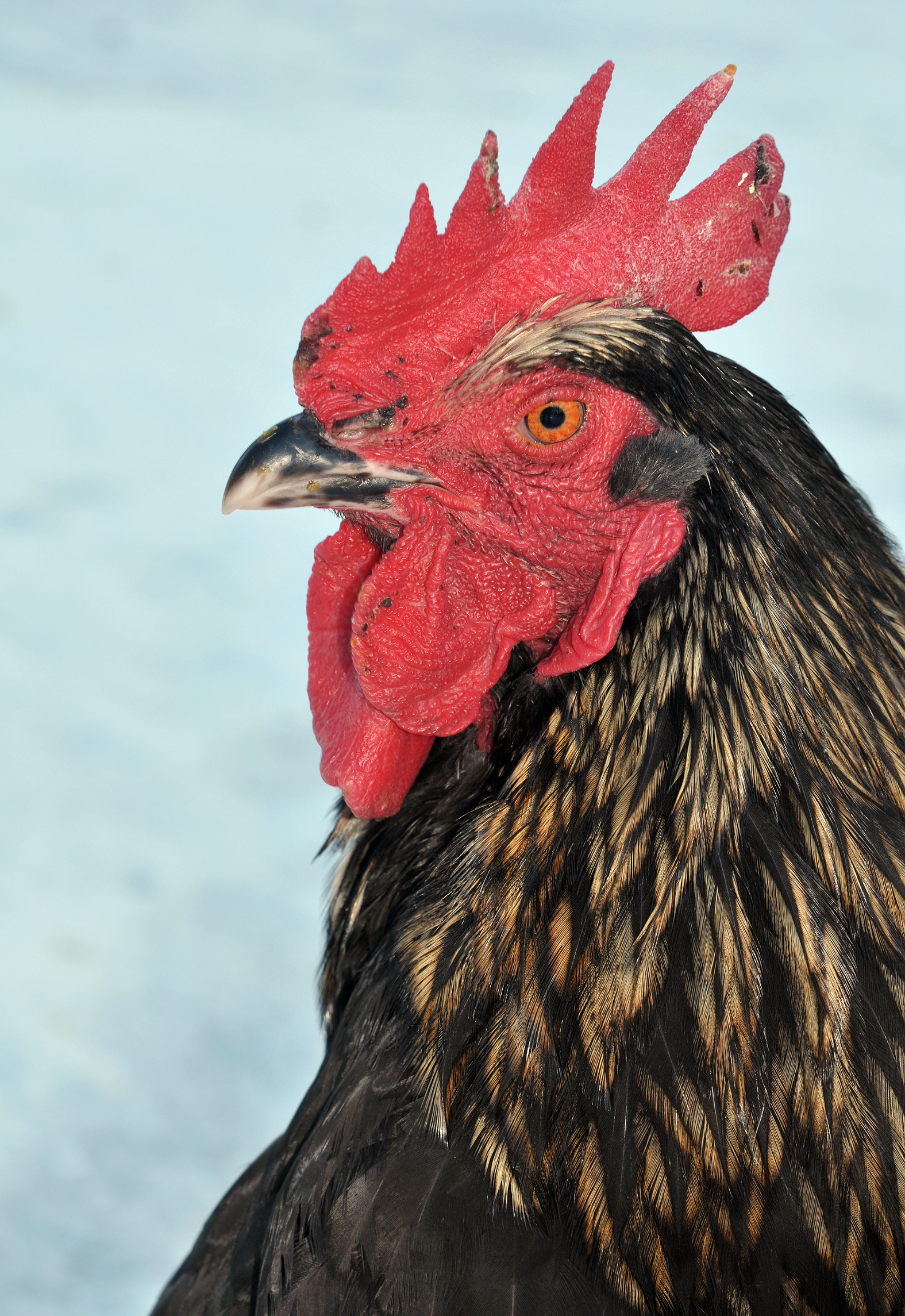 Rooster Black Bovan